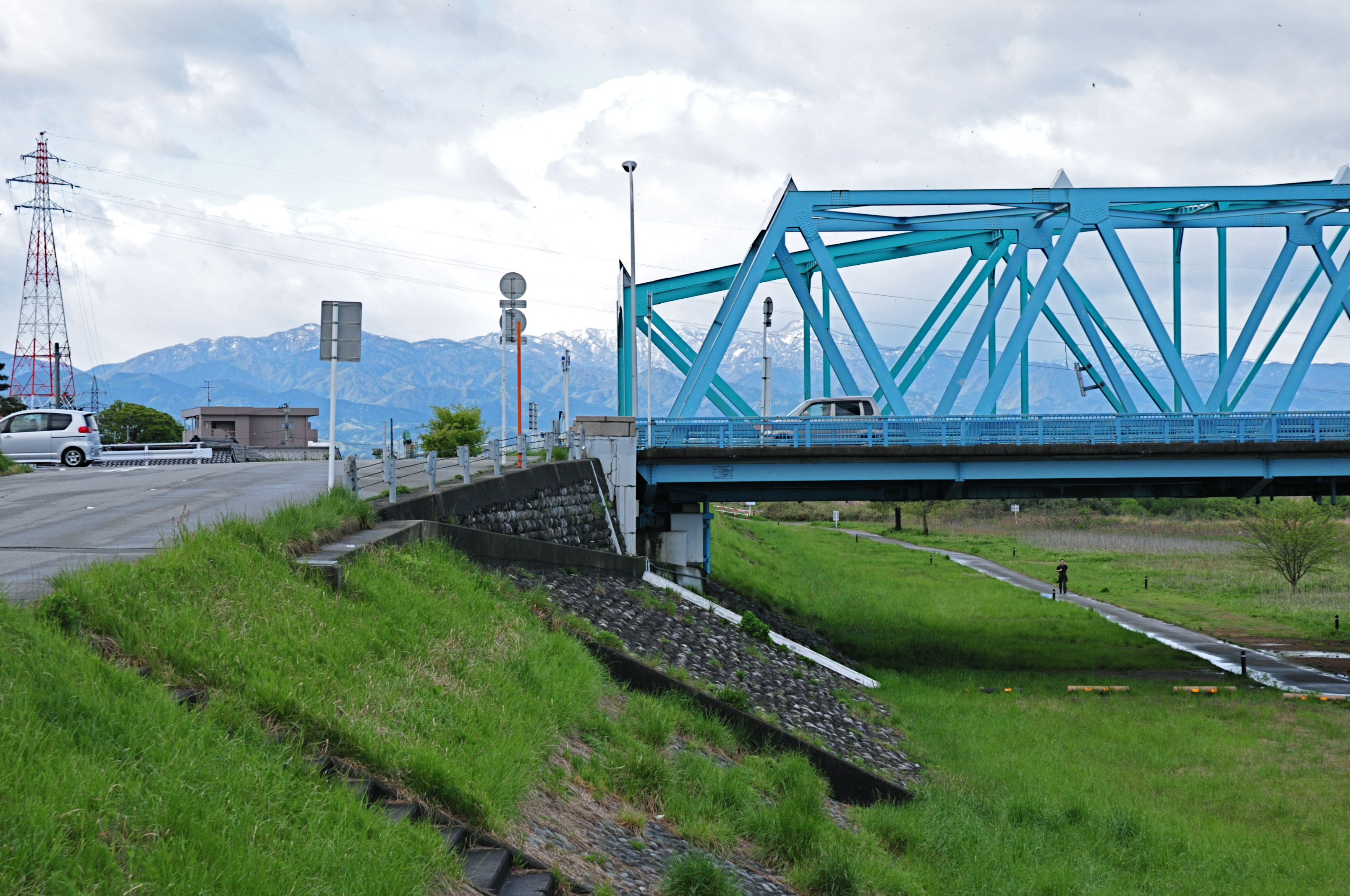 Arisawa-bashi, a bridge over the Jinzū River in Toyama City, Japan.